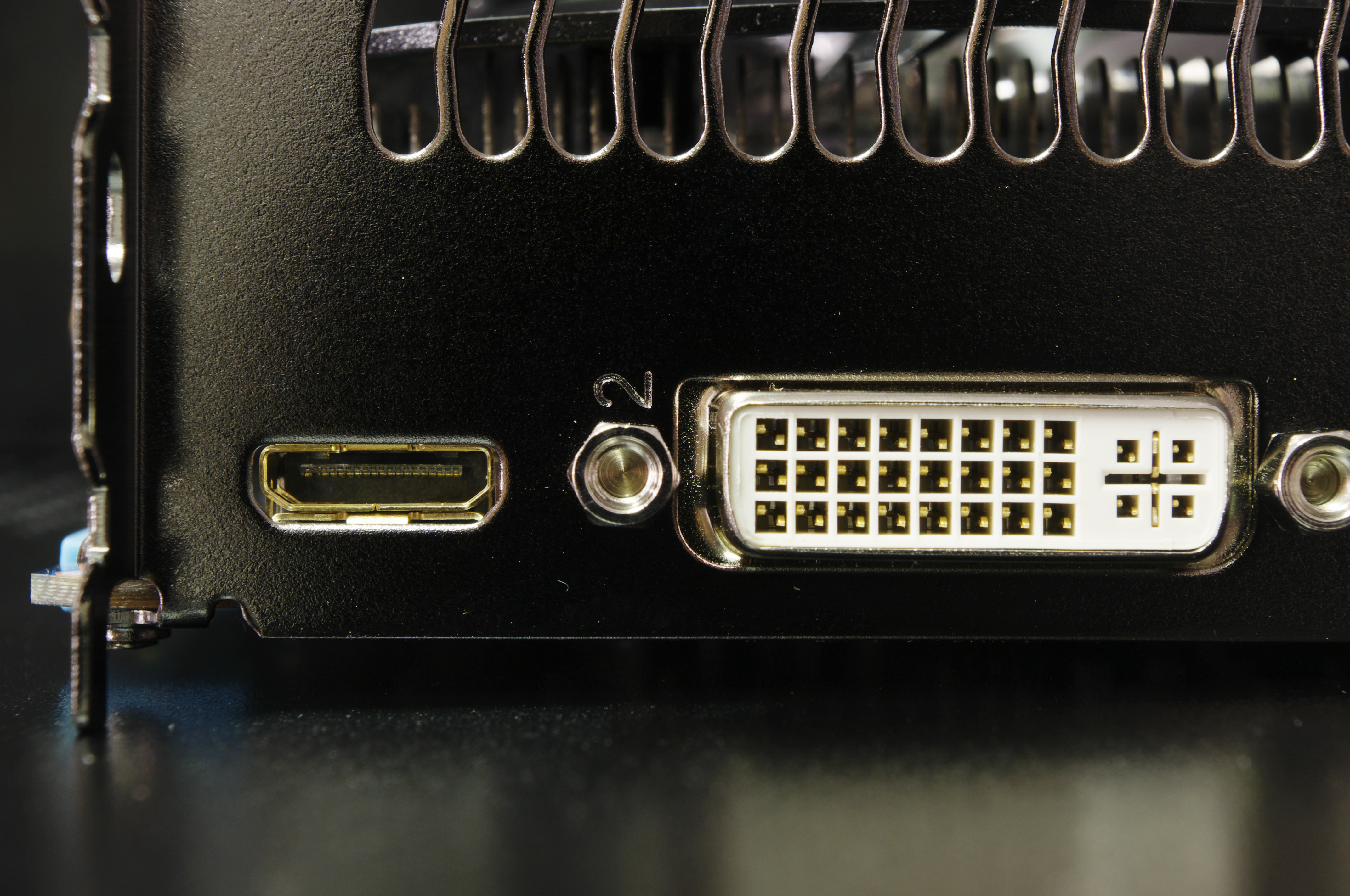 Graphics board mini-HDMI and DVI-I connectors